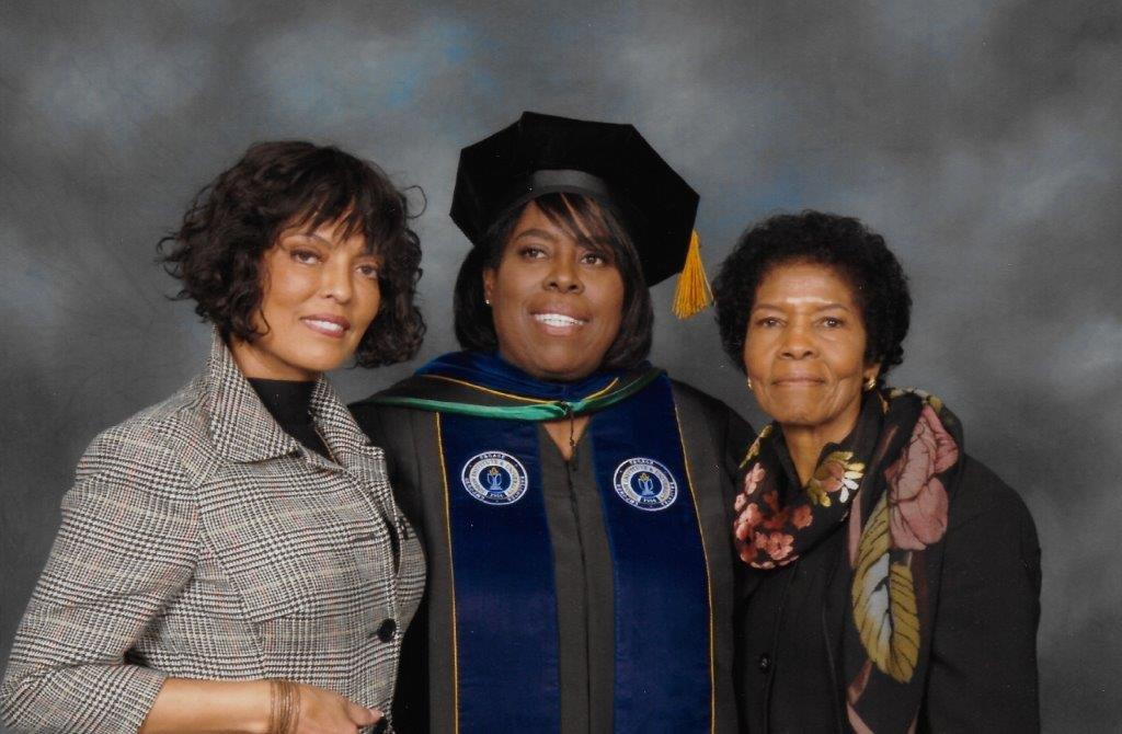 Graduation Photo